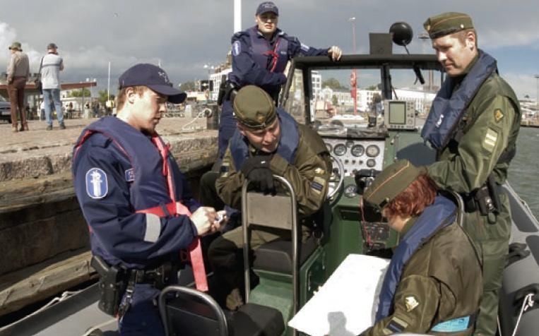 Two Finnish policemen and border guards in a patrol boat in the port of Helsinki. The borderguards are a vanhempi merivartija, nuorempi merivartija and a lieutenant from left to right. The policemen are a nuorempi konstaapeli (foreground) and a vanhempi konstaapeli (background)